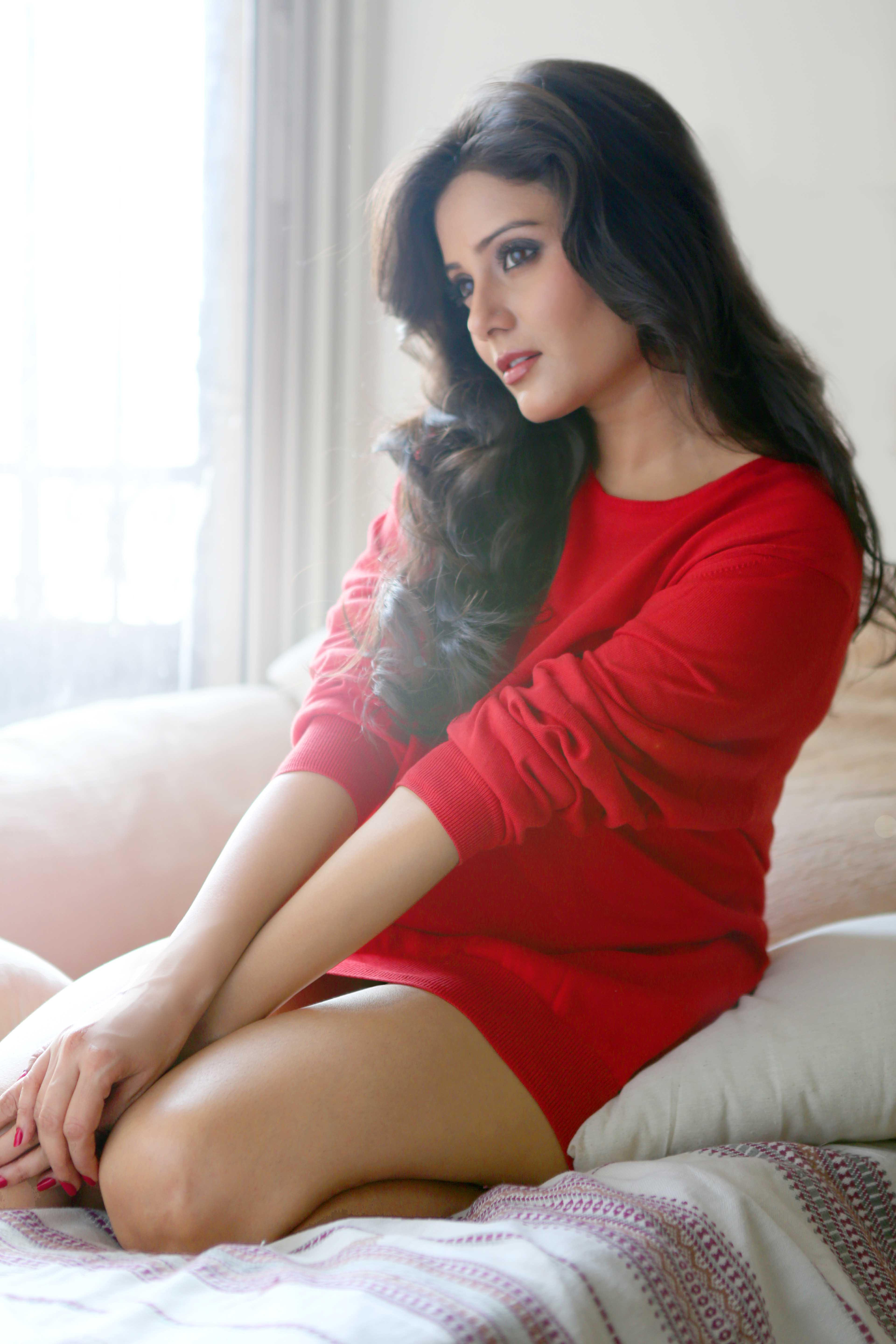 Archanna Gupta photoshoot